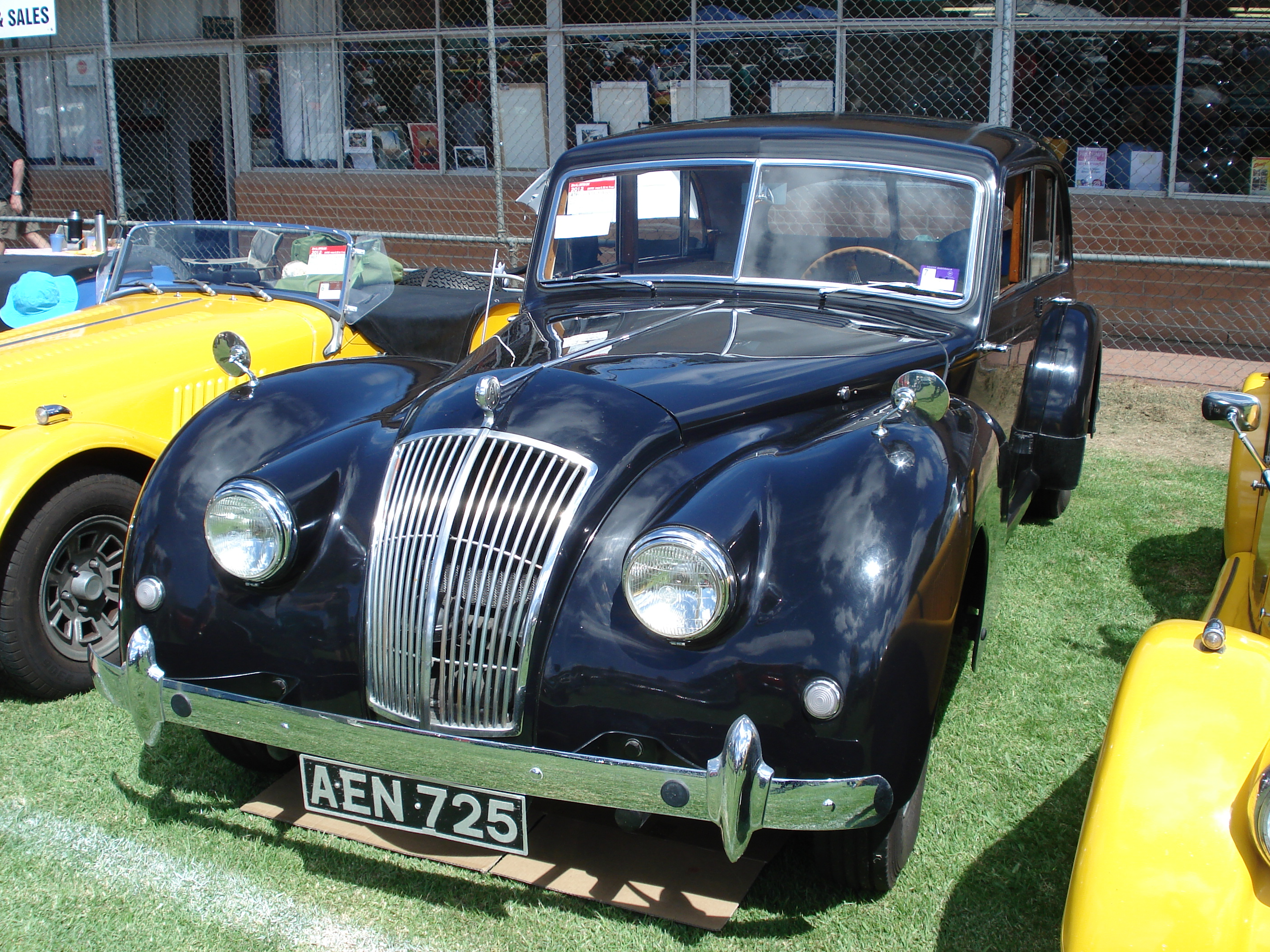 AC 2-Litre 4 Door Saloon of 1949